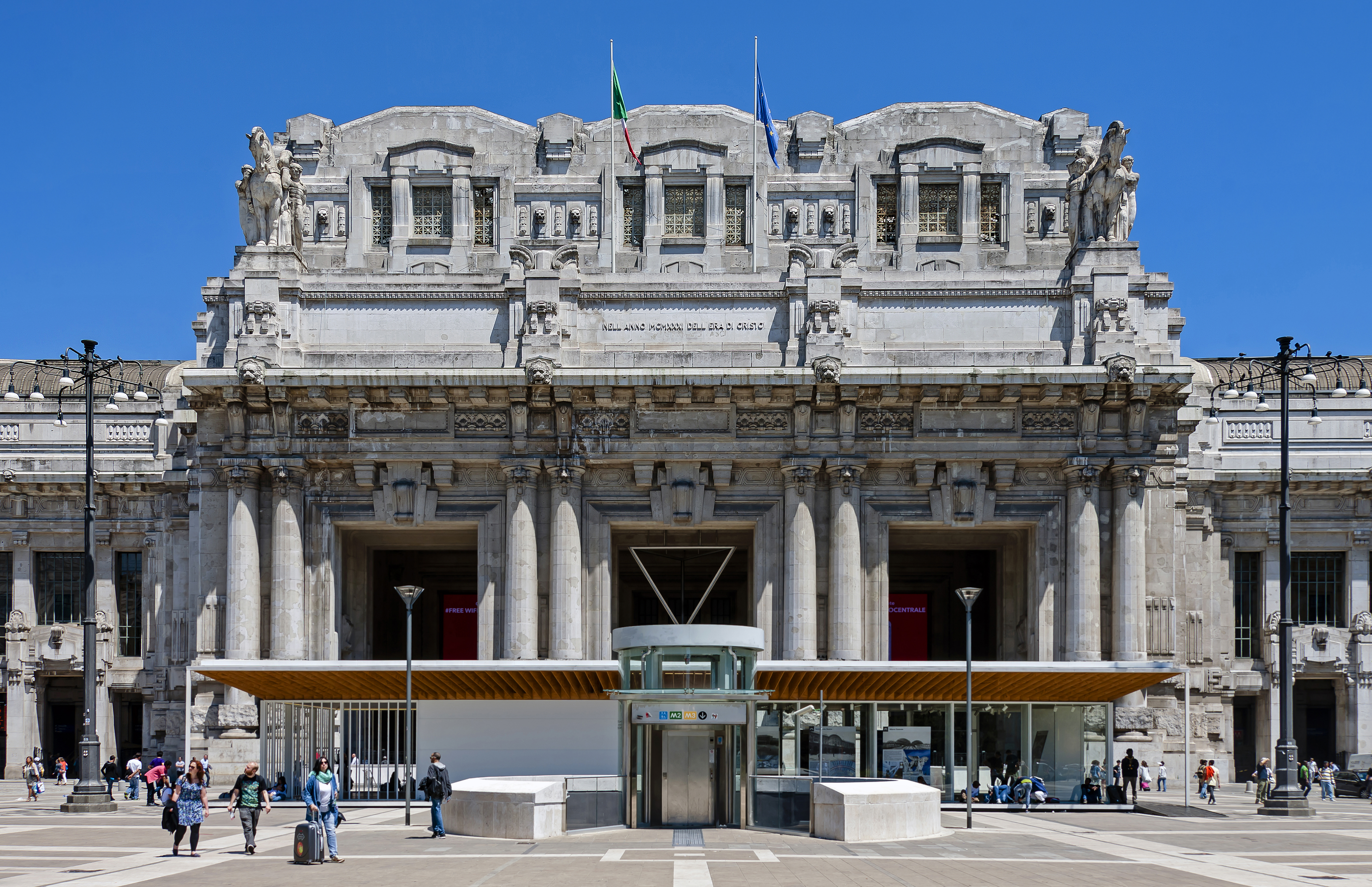 Front entrance portico of Milan Centrale station